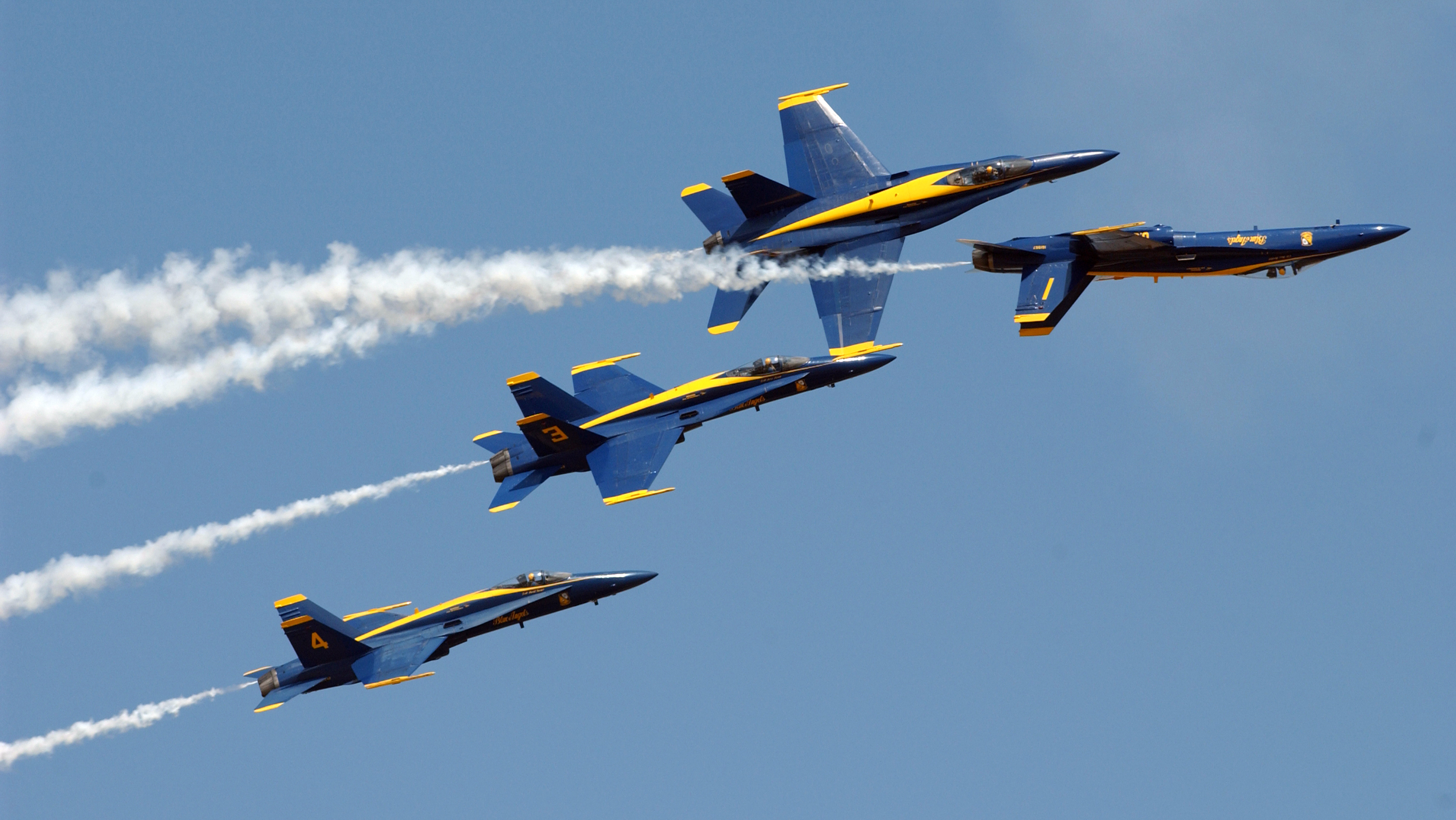 Hillsboro, Ore. (Aug. 15, 2004) - The U.S. Navy flight demonstration team, the "Blue Angels," left echelon formation rolls 270 degrees in ripple fashion performing the Tuck Under Break at the Oregon International Air Show in Hillsboro, Ore. The Blue Angels fly the F/A-18A Hornet, performing approximately 30 maneuvers during the aerial demonstration lasting over an hour. U.S. Navy photo by Photographer’s Mate 2nd Class Ryan J. Courtade (RELEASED)